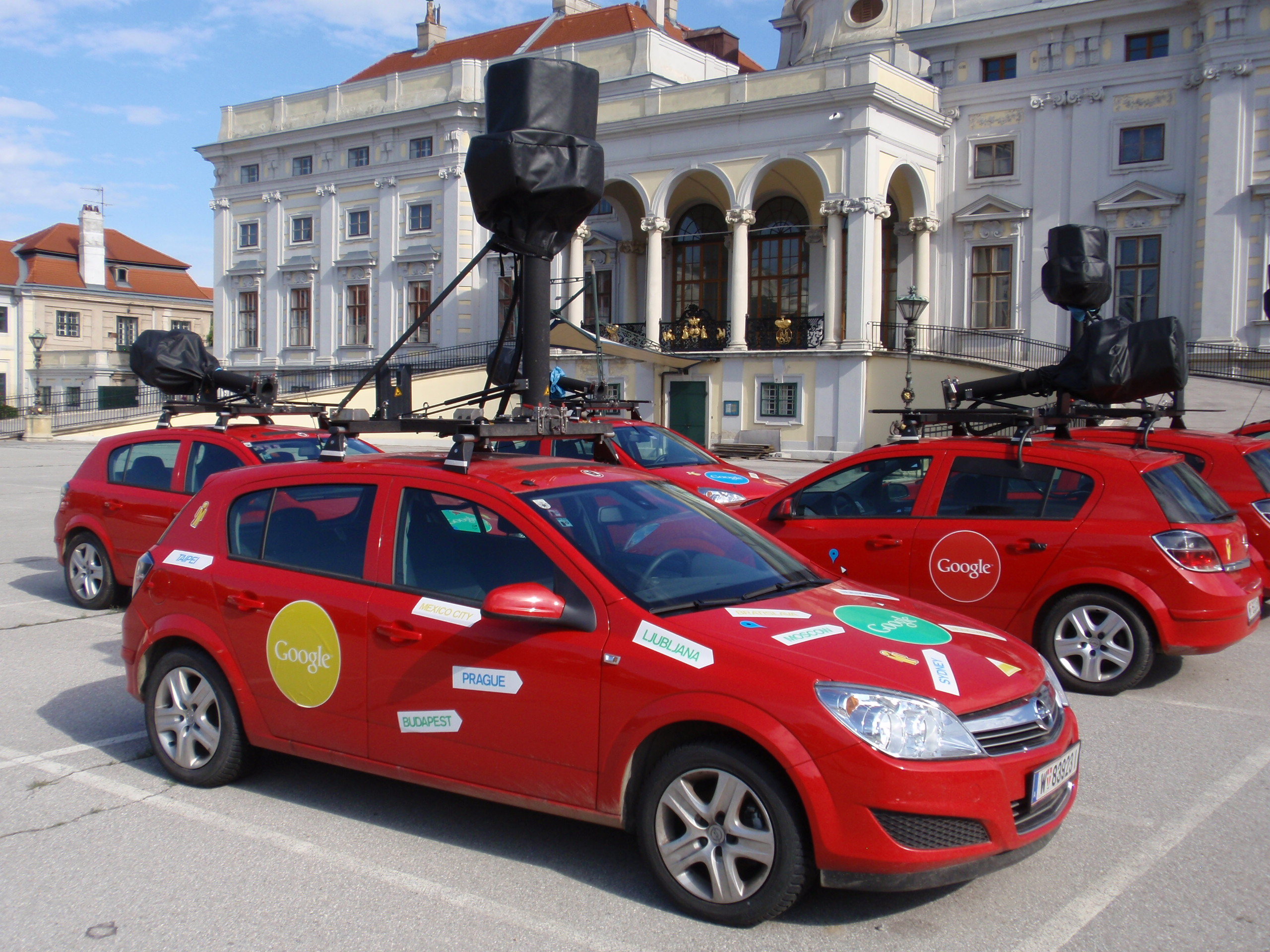 Google Street View cars, parked at the Palais Schwarzenberg in Vienna Boarisch: Google Street View Autos, auf'n Parkblåz fum Palais Schwoaznbeag in Wean